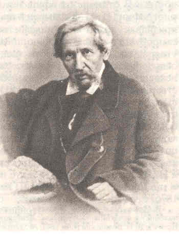 Nikolay Markevich